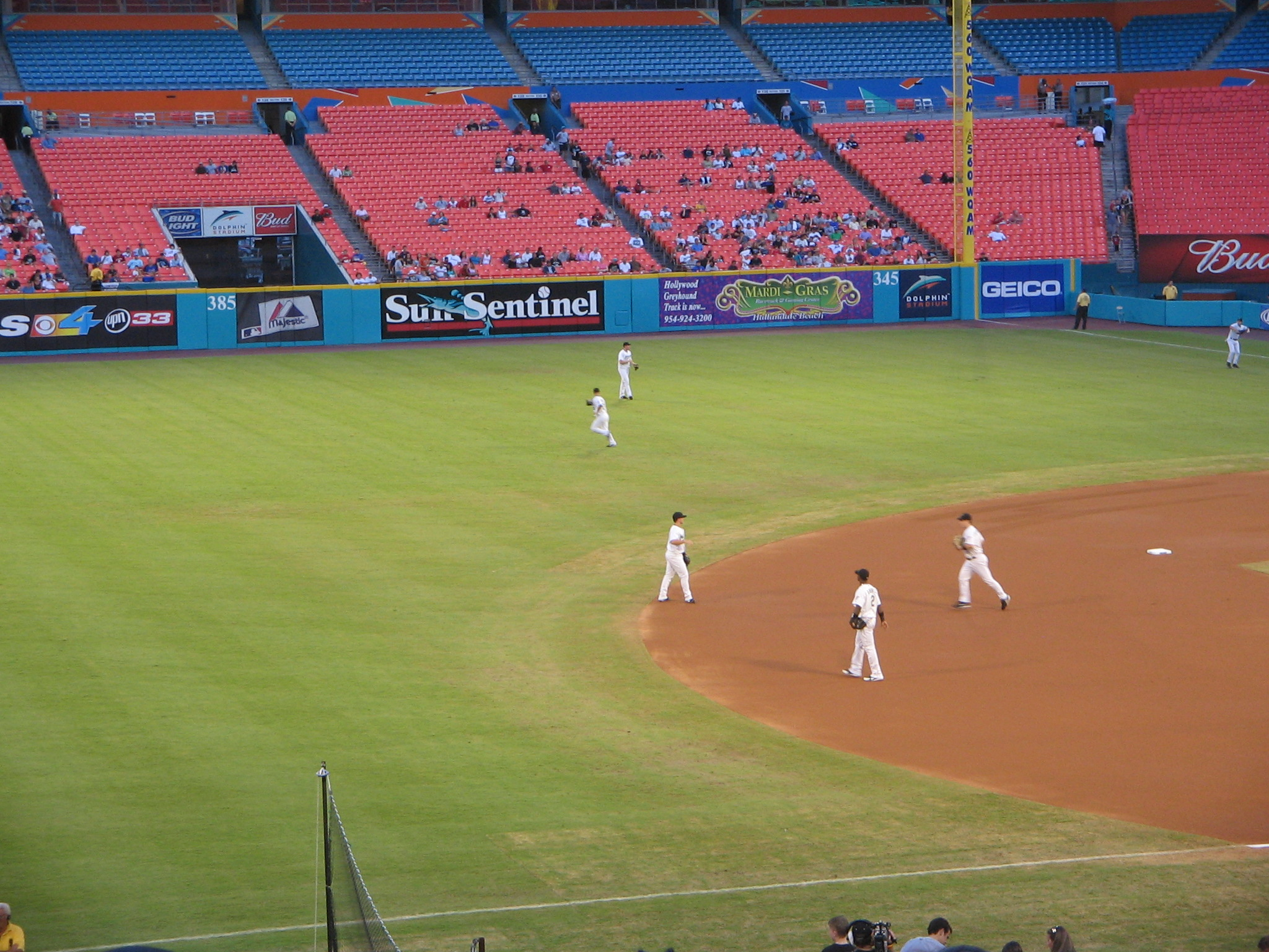 2006 Florida Marlins squad 15:31, 30 March 2008 . . Fredler Brave . . 2,048×1,536 (931 KB)